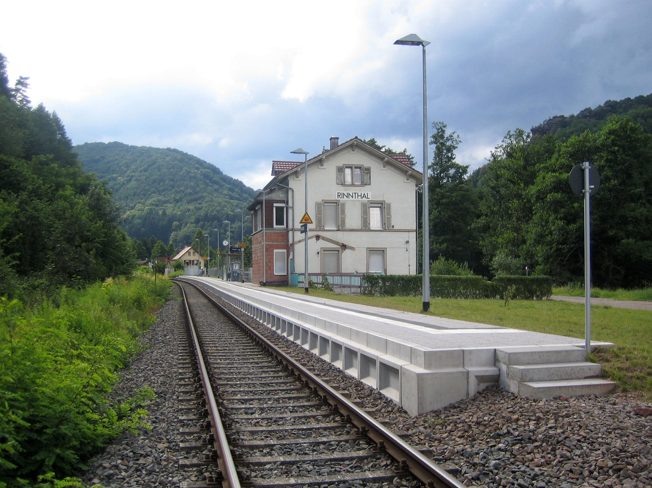 Bf. Rinnthal